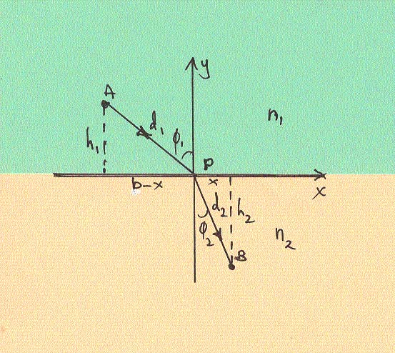 Geometrical diagram for the proof of Snell's law, based on Fermat's principle.